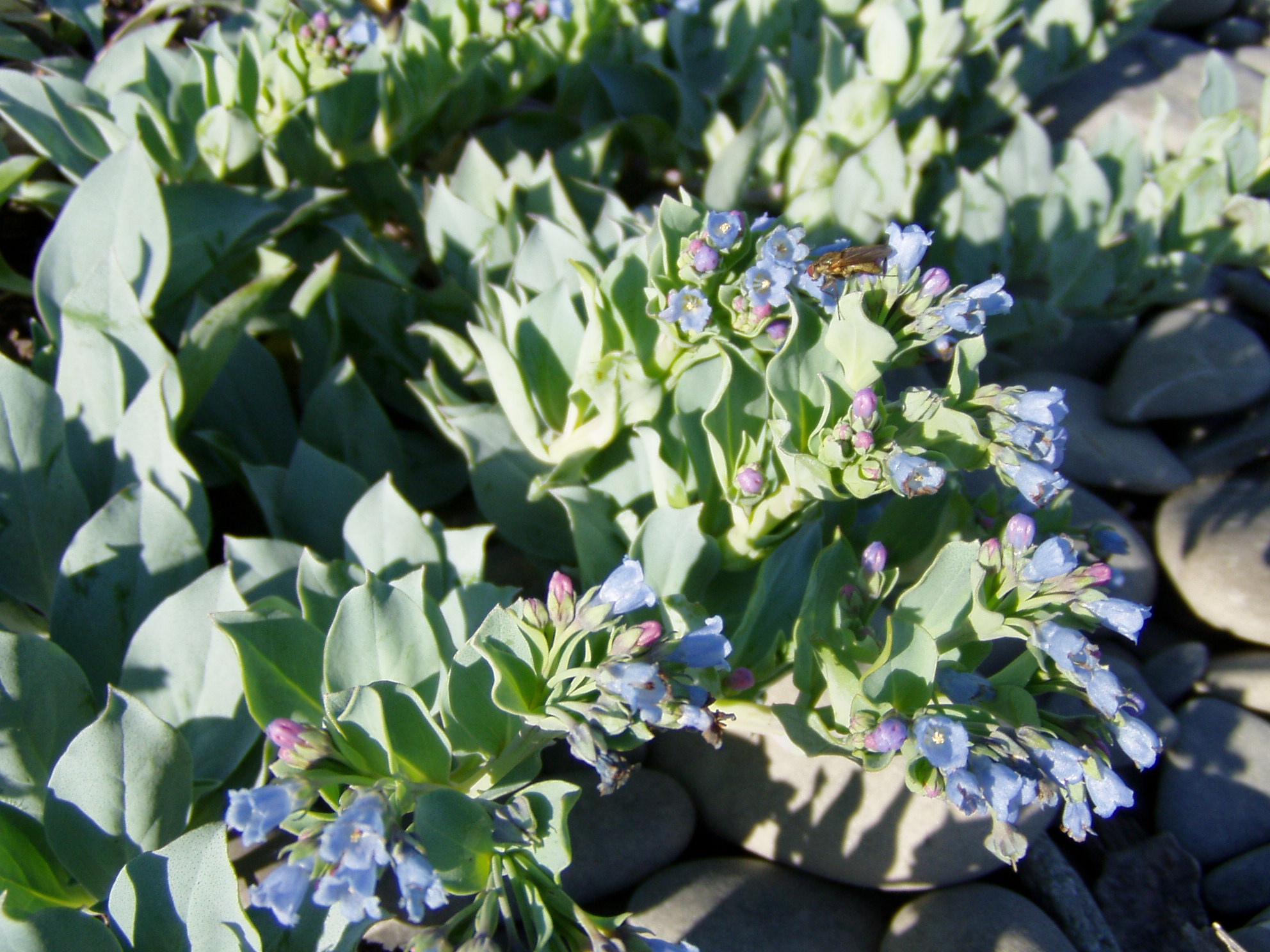 Oysterleaf (Mertensia maritima). Photo taken in July 2005 by myself, Danielle Langlois, on a shingle beach at Pointe-à-la-Frégate, Québec, Canada.